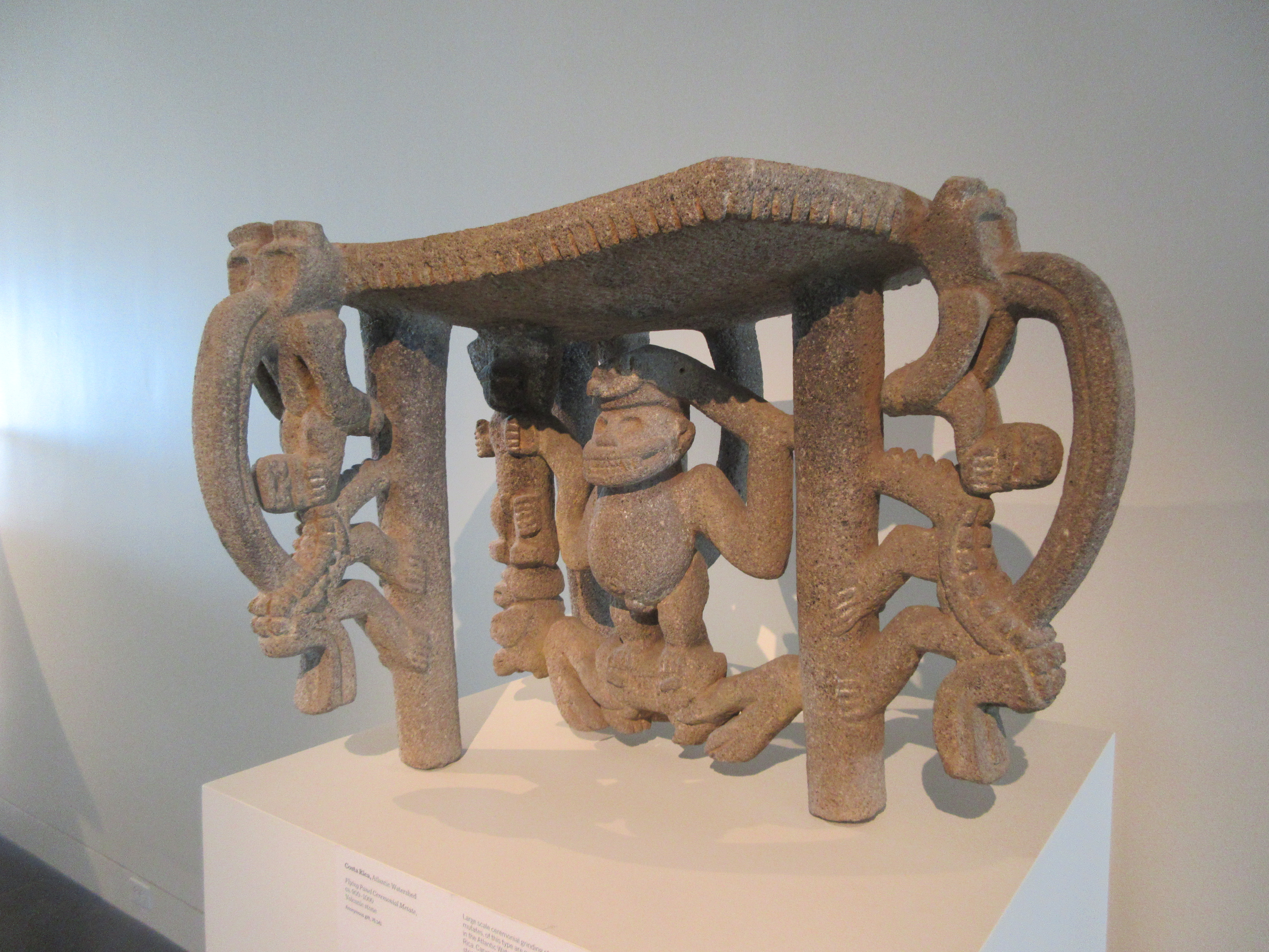 Elaborately carved stone metate, circa 900-1000 ce, Costa Rica Atlantic Watershed. Collections of New Orleans Museum of Art.